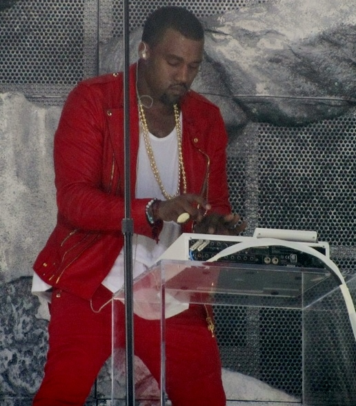 Kanye West performing at Austin City Limits Music Festival on September 16, 2011 in Austin, Texas.